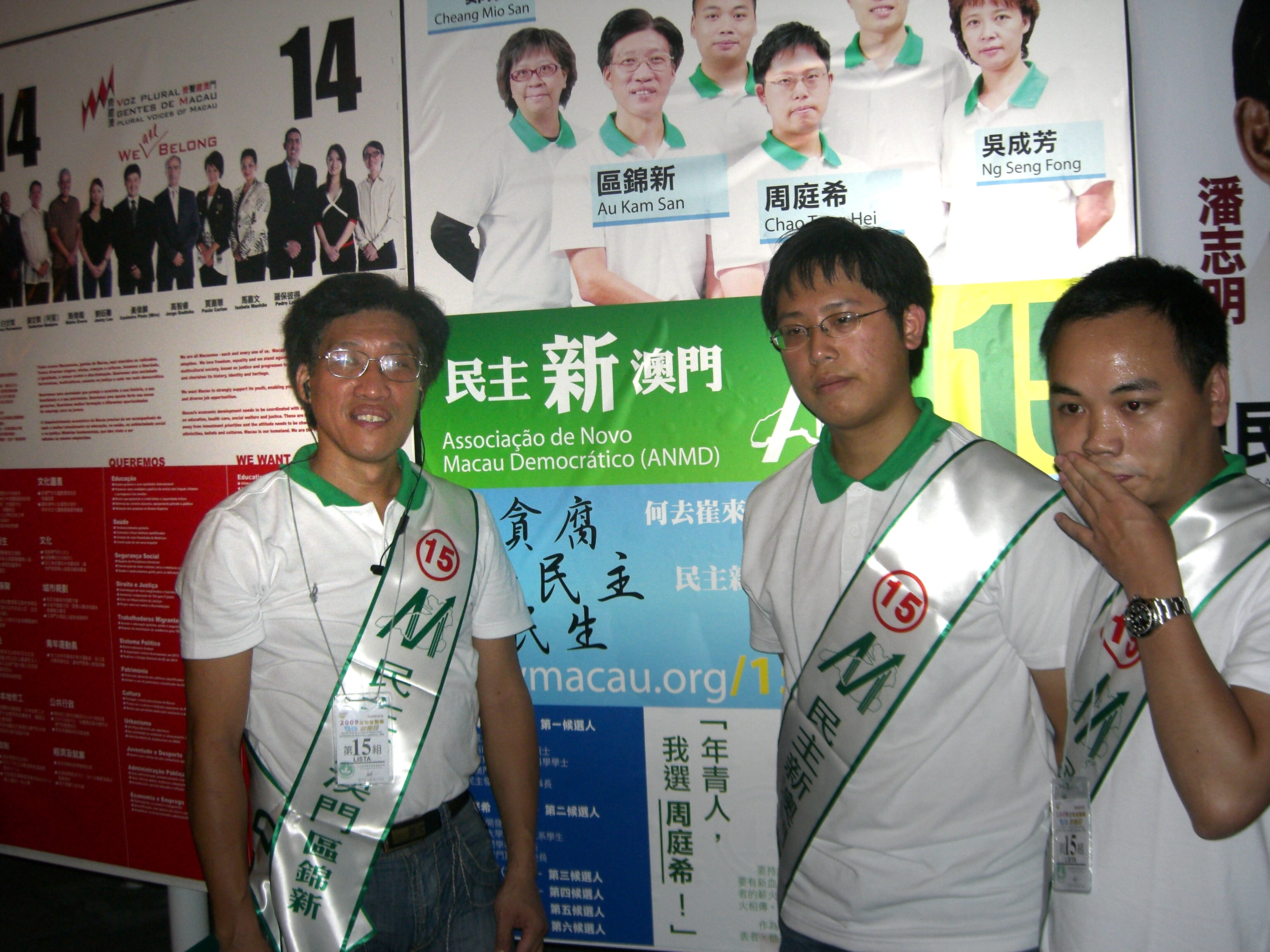 The members of New Democratic Macau Association in the start of promotion period of Macanese Legislative Election 2009